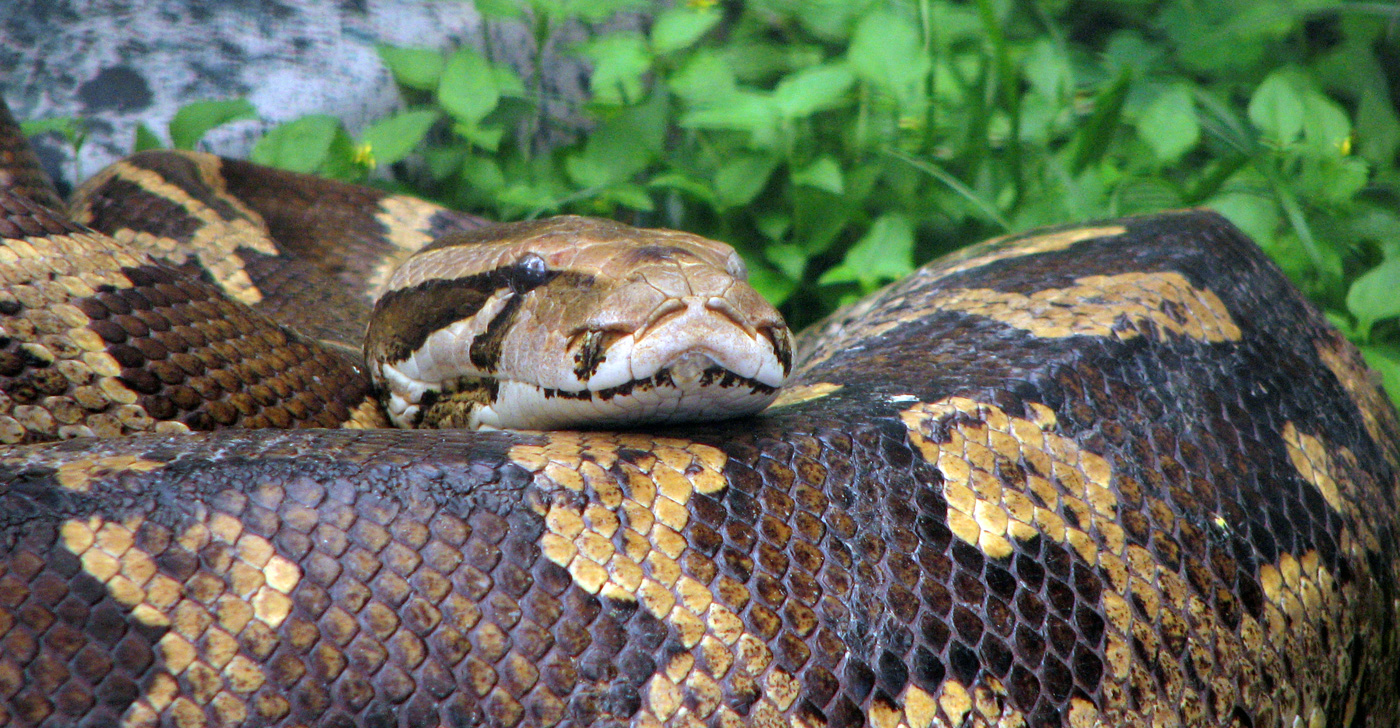 Python from india